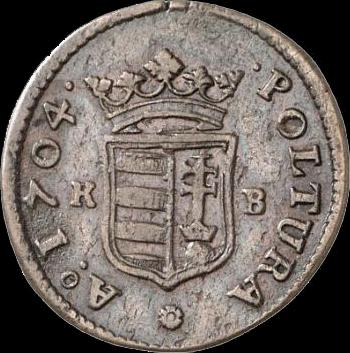 1 poltura coin, Hungary, Francis II Rákóczi (1704, KB) obverse [Huszár: 1549; Unger: 1139.a]